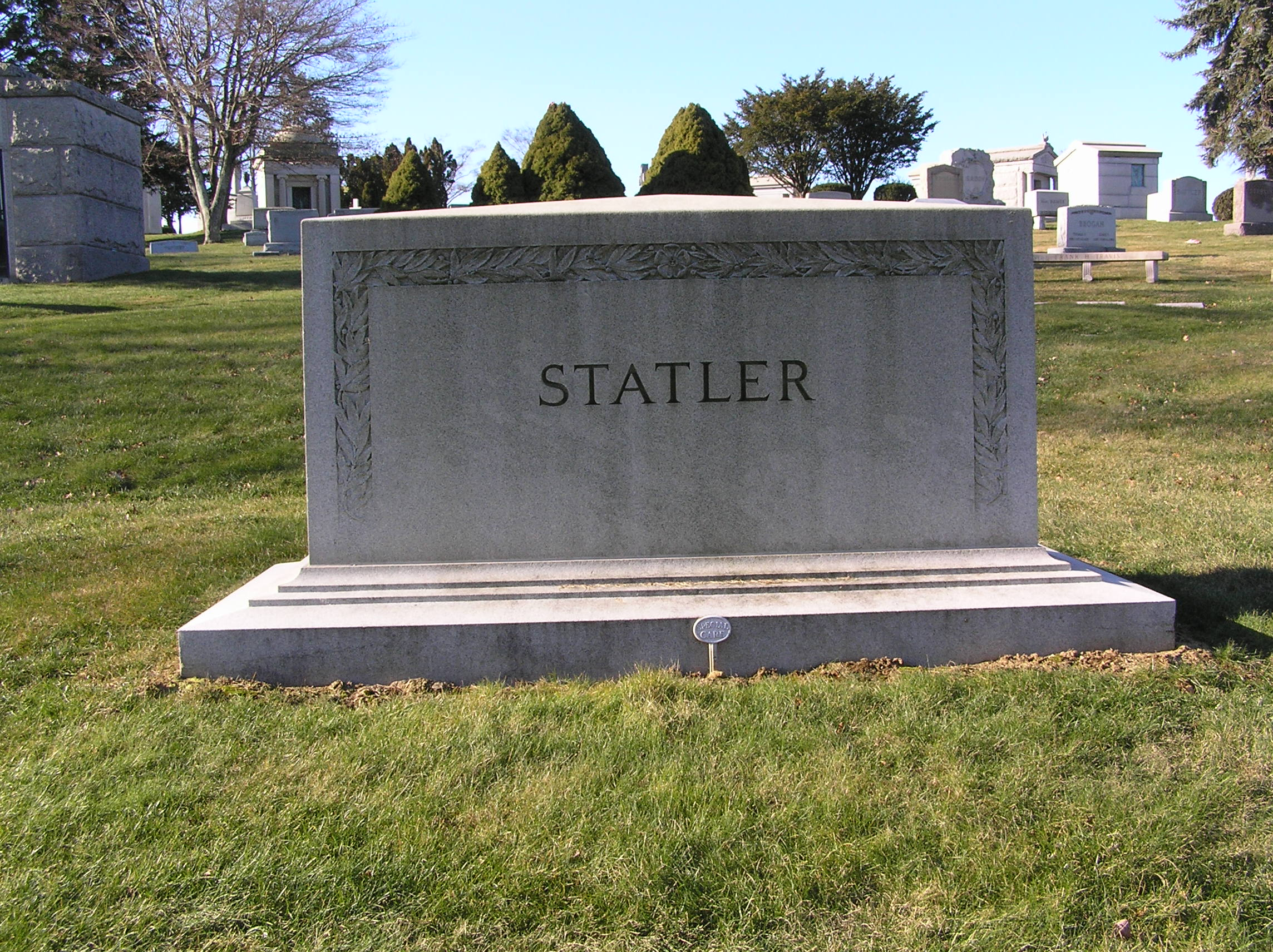 The gravesite of Ellsworth Milton Statler in Kensico Cemetery